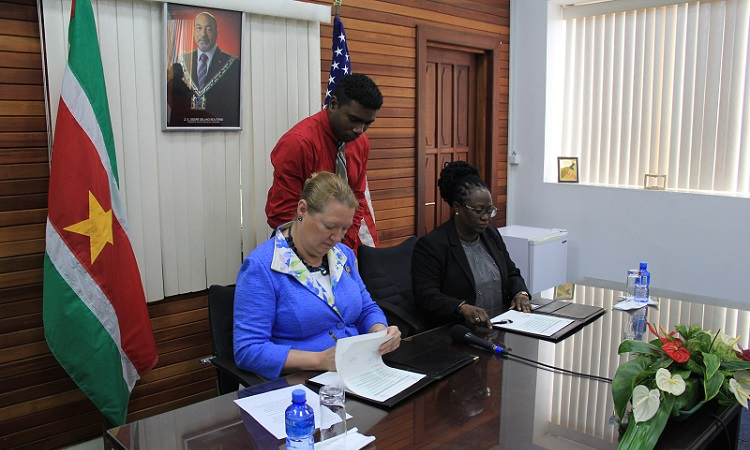 US Ambassador Karen L. Williams & Suriname's Director of National Security Daniëlle Veira